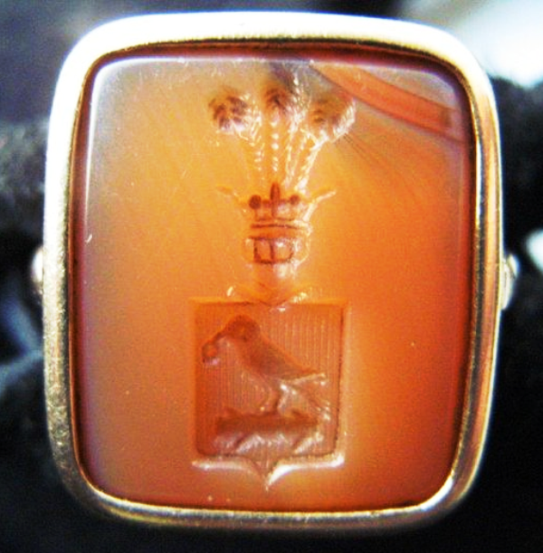 Photo: Signet ring made in gold and gem with Korwin coat of arms carved on light-orange carnelian. This signet ring belonged to Zofia Kłopotowska h. Korwin. Hand made circa 1944.